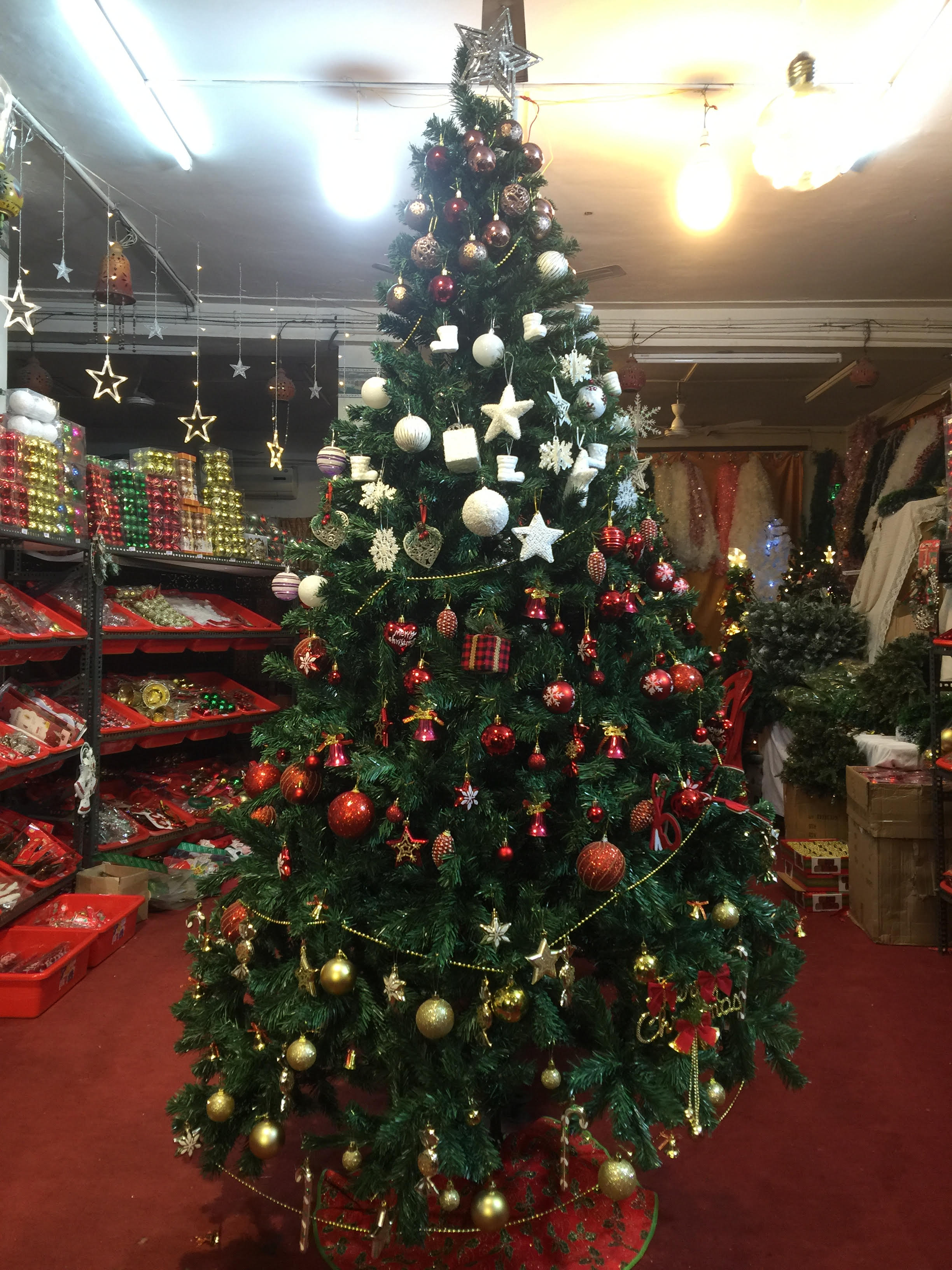 How a Christmas tree is decorated and celebrated in Chennai, India.